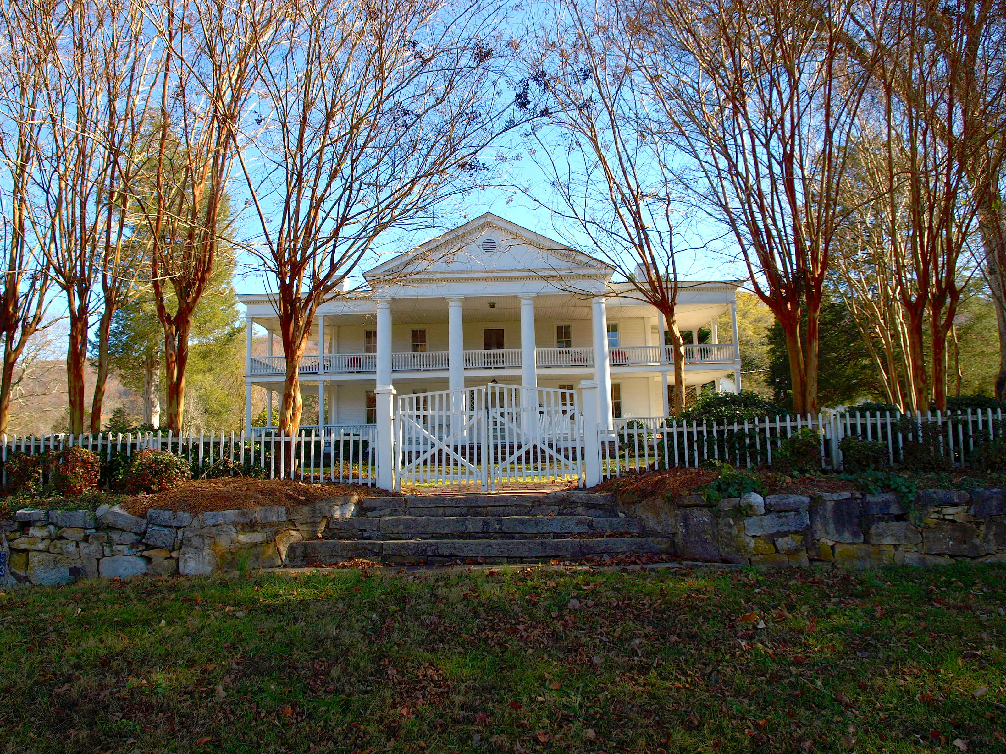 Winston Place in Valley Head, Alabama, listed on the National Register of Historic Places